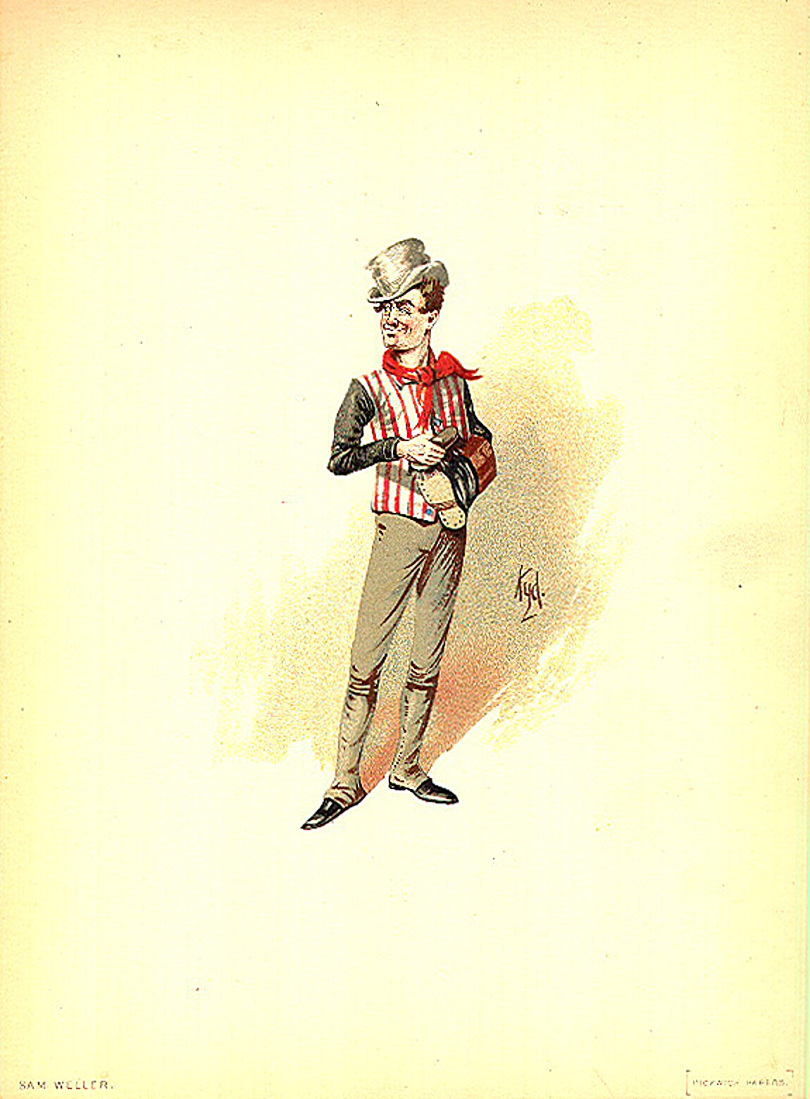 From "Character Sketches from Charles Dickens, Pourtrayed by Kyd", or "The Characters of Charles Dickens Pourtrayed in a Series of Original Water Colour Sketches by Kyd." Scanned and archived at where it was marked as Public Domain.